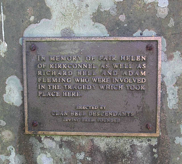 Plaque to 'Fair Helen' The plaque commemorates the participants in the story of 'Fair Helen', told in the traditional balld 'Kirkconnel Lea'.